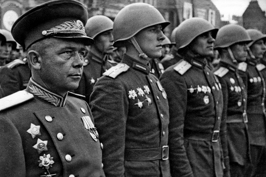 Soviet Victory Parade on Red Square